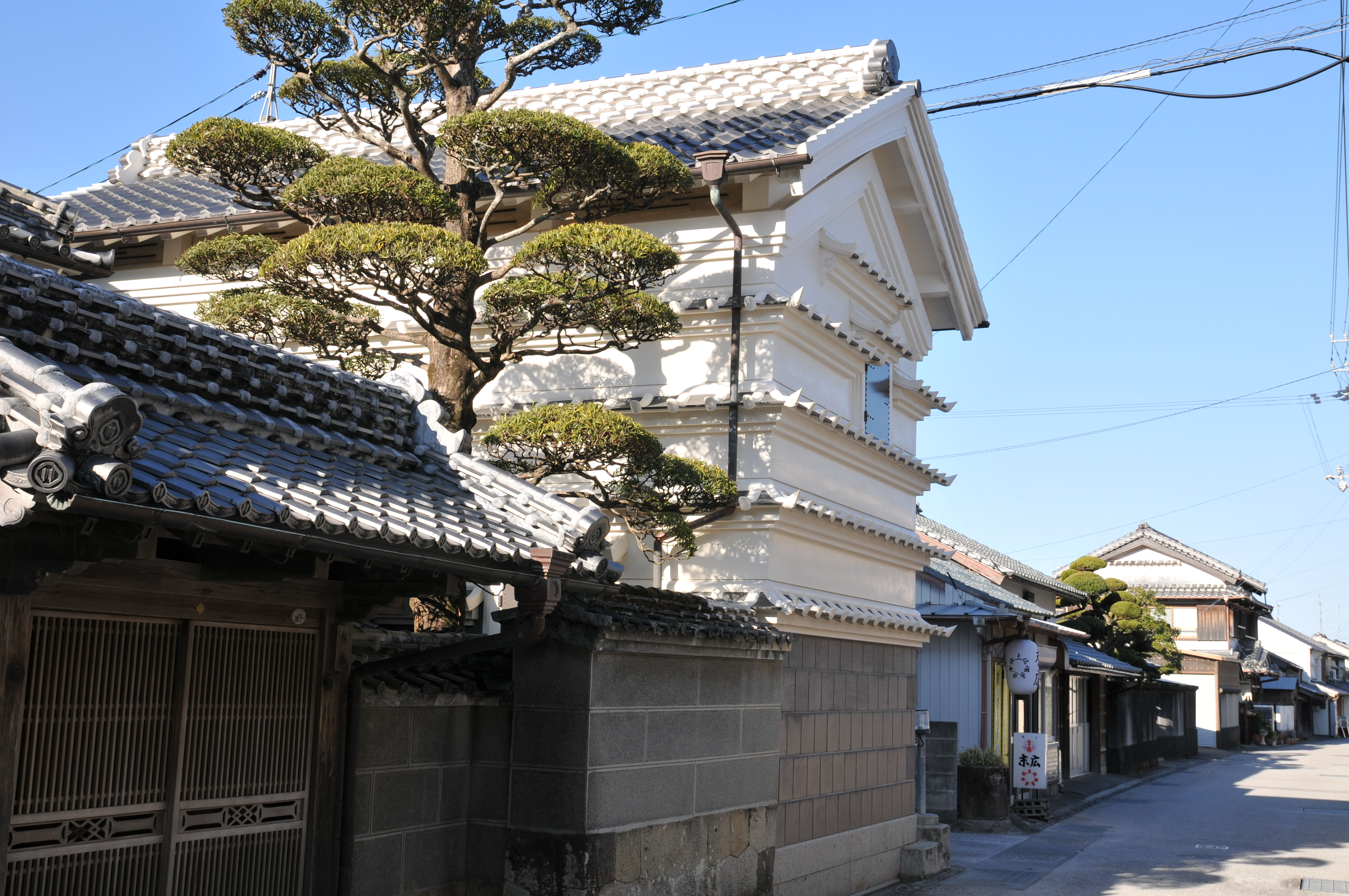 Matsumoto house, Kiragawachō